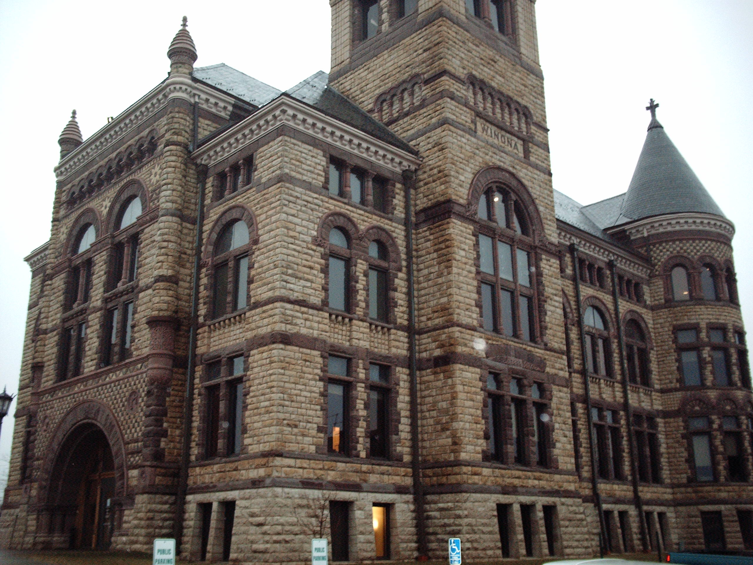 Photo I took 2006-01-28 of the Winona County, Minnesota, courthouse in Winona, Minnesota. CC & GFDL.